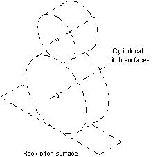 An illustration of a pitch cylinder